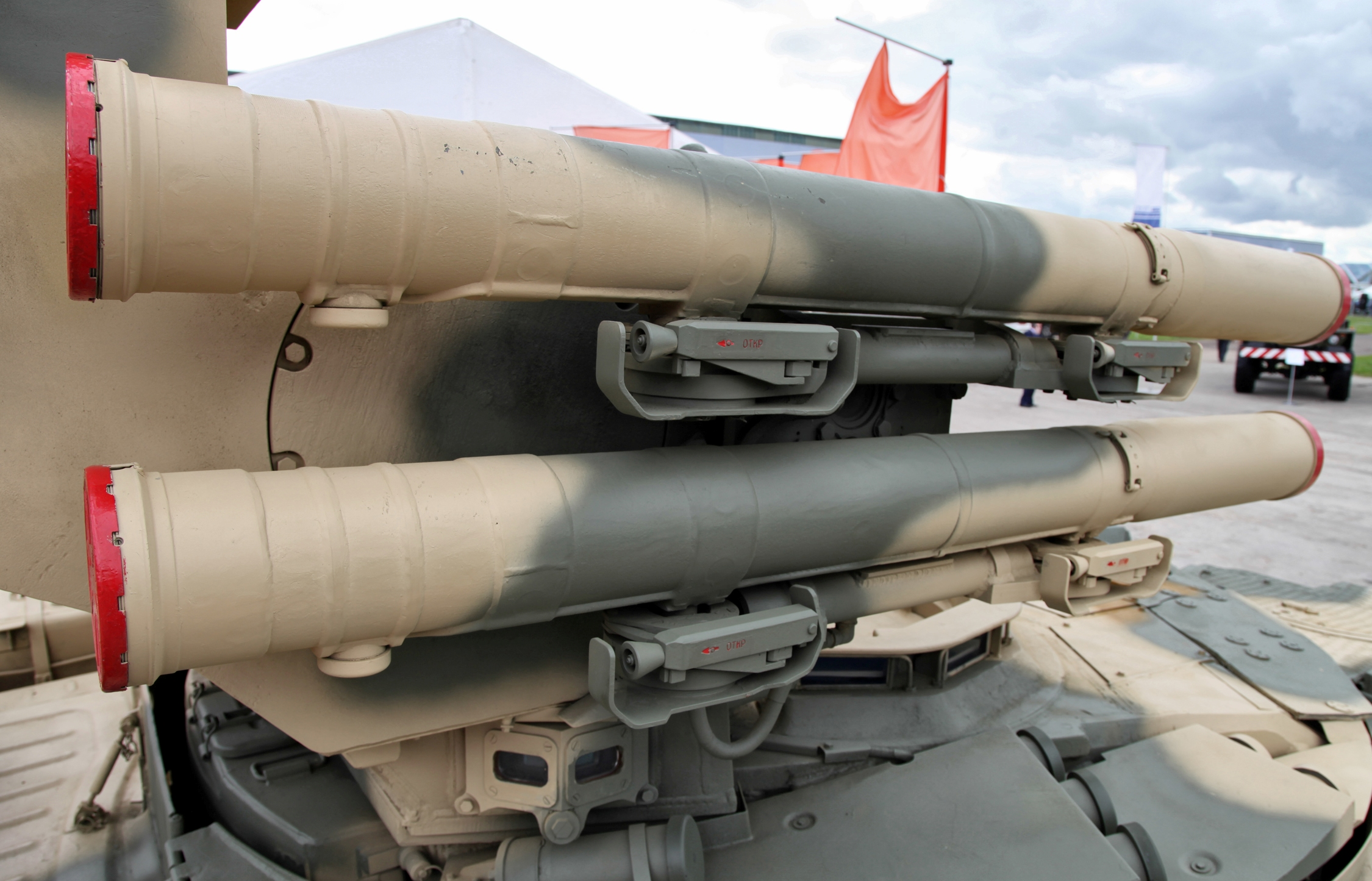 Tank support vehicle BMPT at Engineering Technologies 2012 international forum.